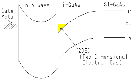 Band of Well-Known Basic High Electron Mobility Transistor (HEMT)